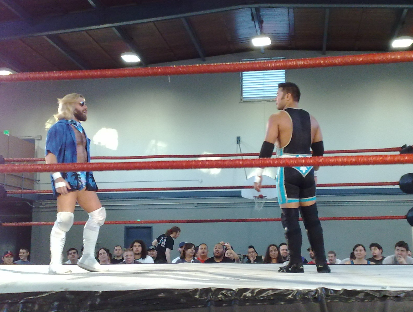 Professional wrestlers Joey Ryan (left) and Scott Lost (right) at Pro Wrestling Guerrilla's DDT4 Night 2 show in May 2008.